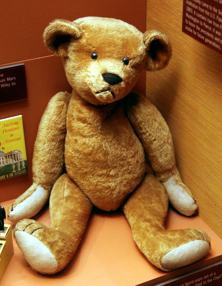 Teddy bear early 1900s - Smithsonian Museum of Natural History - 2012-05-15 An original "Teddy Bear" from 1903, manufactured by Benjamin Michton, son of the founder of the Ideal Toy Co. This bear was owned by Theodore Roosevelt's grandson, Kermit. Michton gave the bear to him in December 1963. The Roosevelts donated it to the Smithsonian a month later. The name "Teddy Bear" comes from a political cartoon which made fun of President Theodore Roosevelt. Roosevelt went on a bear hunting trip in Mississippi in November 1902. A small black bear was cornered, clubbed, and tied to a tree. The hunters offered to let Roosevelt shoot it, but he refused -- saying it was unsportsmanlike. Roosevelt did ask that the bear be killed to end its suffering. On November 16, 1902, "Washington Post" political cartoonist Clifford Berryman drew an image of a disgusted Roosevelt refusing to kill a cute little bear. The cartoon was used to poke fun at Roosevelt's over-zealous hunting, fishing, and camping lifestyle. Morris Michtom, owner of a New York City toy store, saw the cartoon. He created a small stuffed bear cub toy, and sent it to Roosevelt. He asked the president's permission to use the name "Teddy", and Roosevelt consented. The toys were an immediate success. By 1906, ladies carried "Teddy bears" with them everywhere, children were photographed with them, and Roosevelt used one as a mascot in his re-election campaign. Michtom used his profits to found the Ideal Toy Co. Early teddy bears were made to look like real bears, with snouts and beady eyes. On display at the Smithsonian Museum of American History in Washington, D.C.